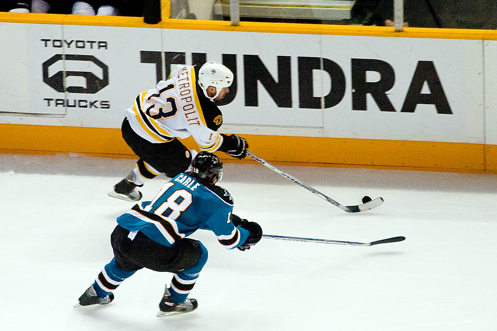 Boston Bruins vs. San Jose Sharks 10/13/2007